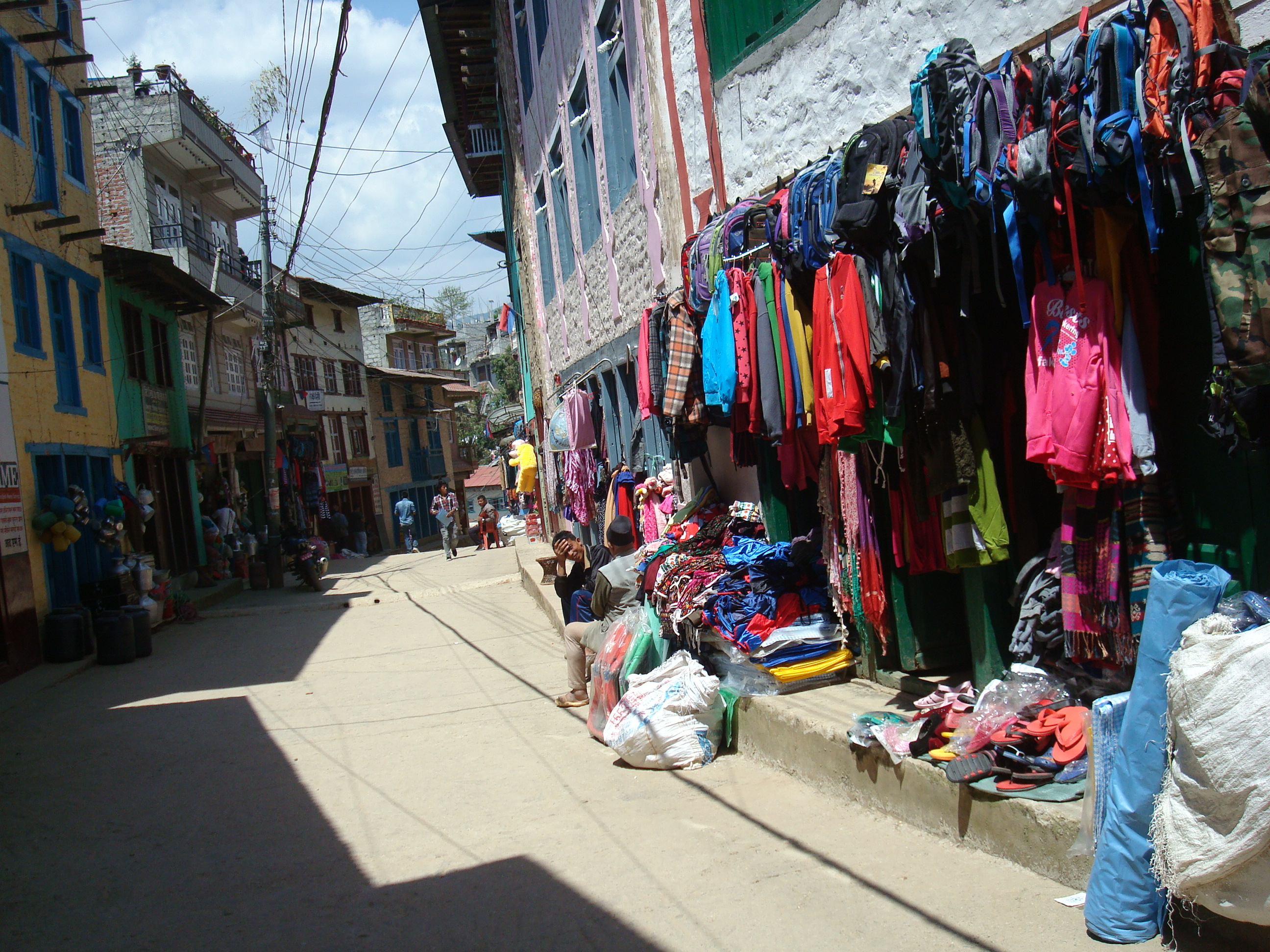 Okhaldhunga bazar